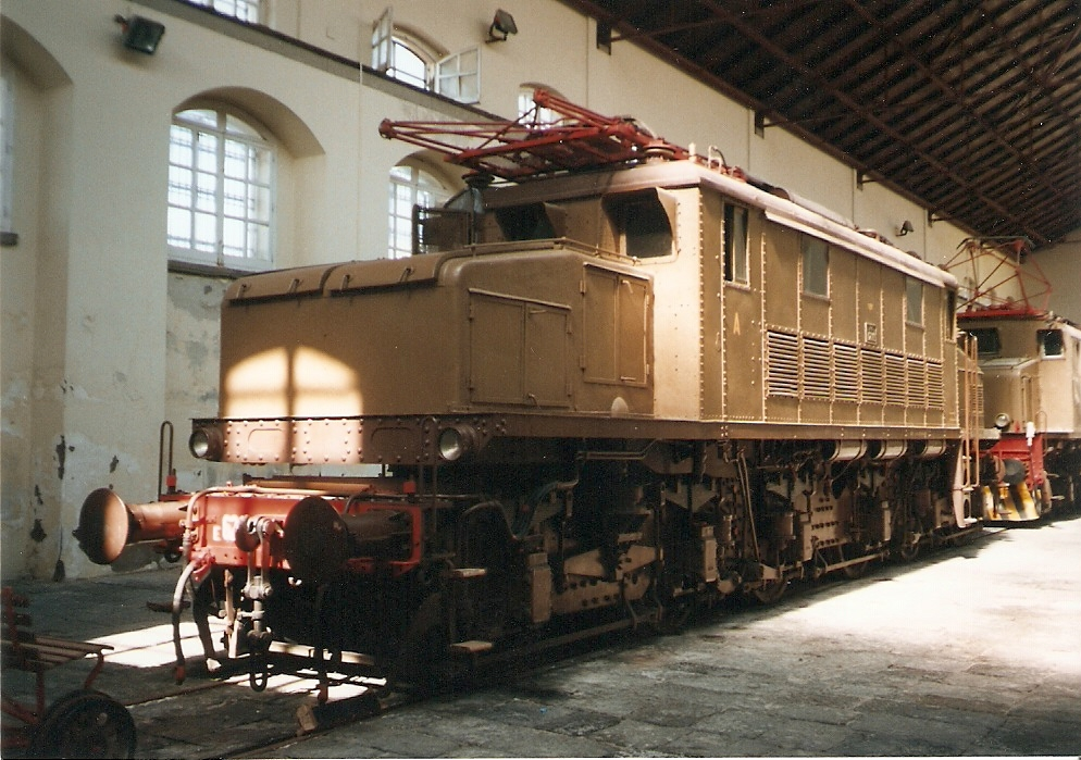 FS E626.005 in Pietrarsa railway museum